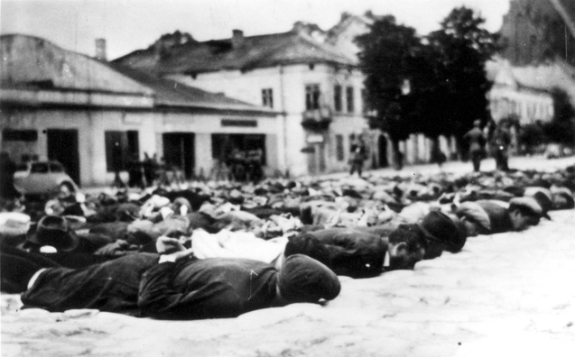 The Bloody Wednesday in Olkusz, German-occupied Poland, 1940. Polish and Jewish hostages at Market Square.